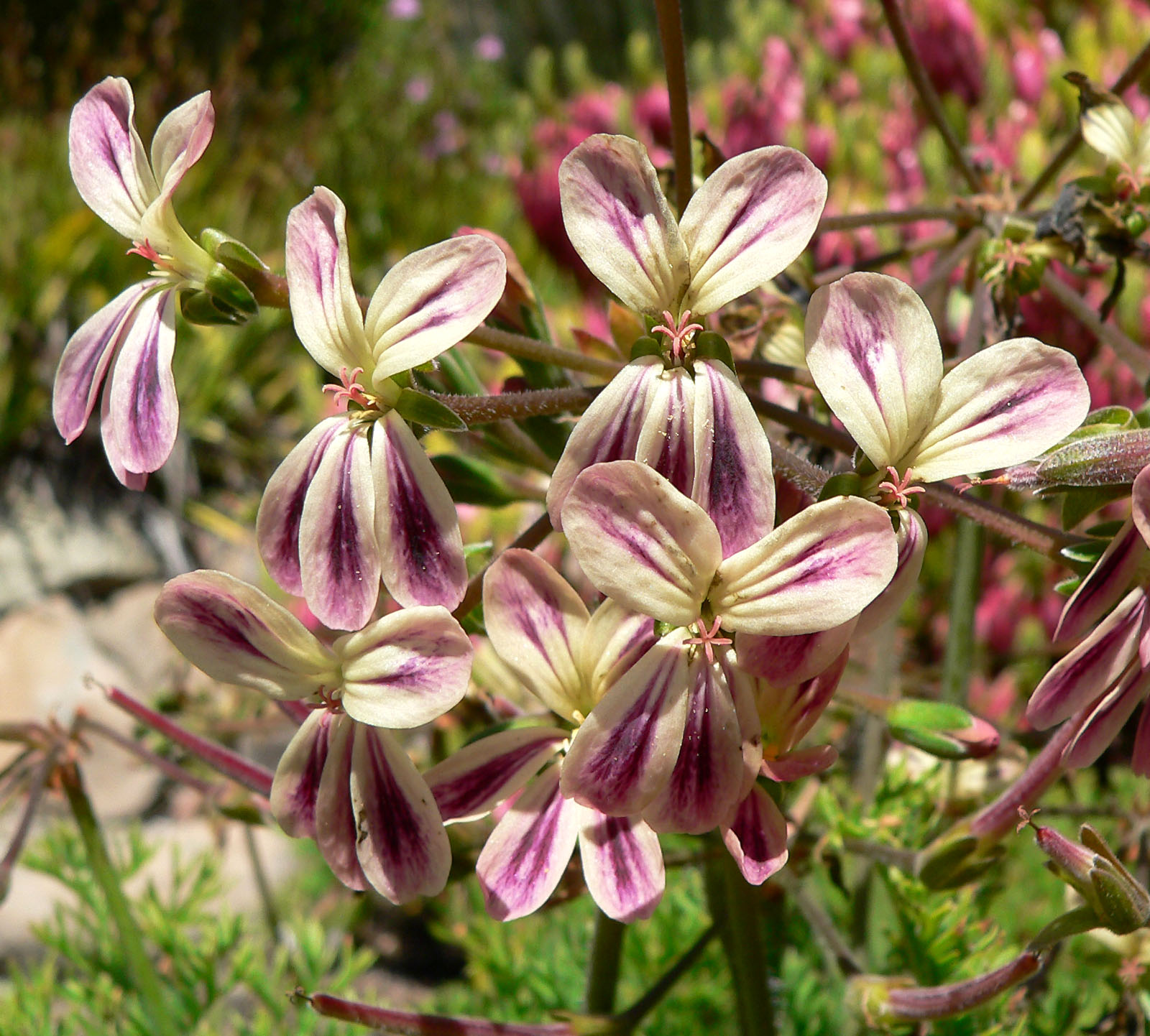 Pelargonium triste at the University of California Botanical Garden, Berkeley, California